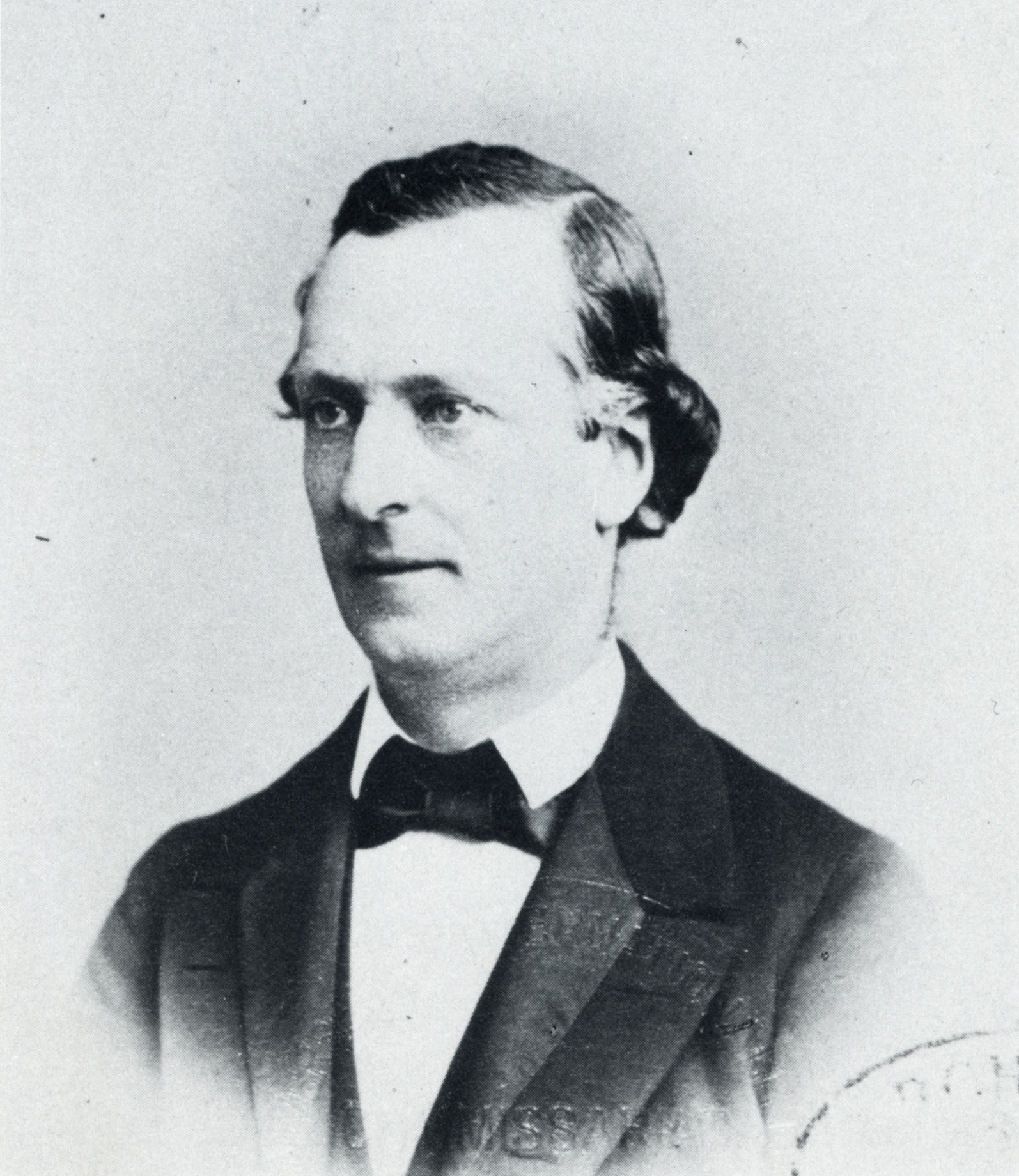 Charles Nuitter (1828–1899), archivist of the Paris Opera from 1866 to 1899